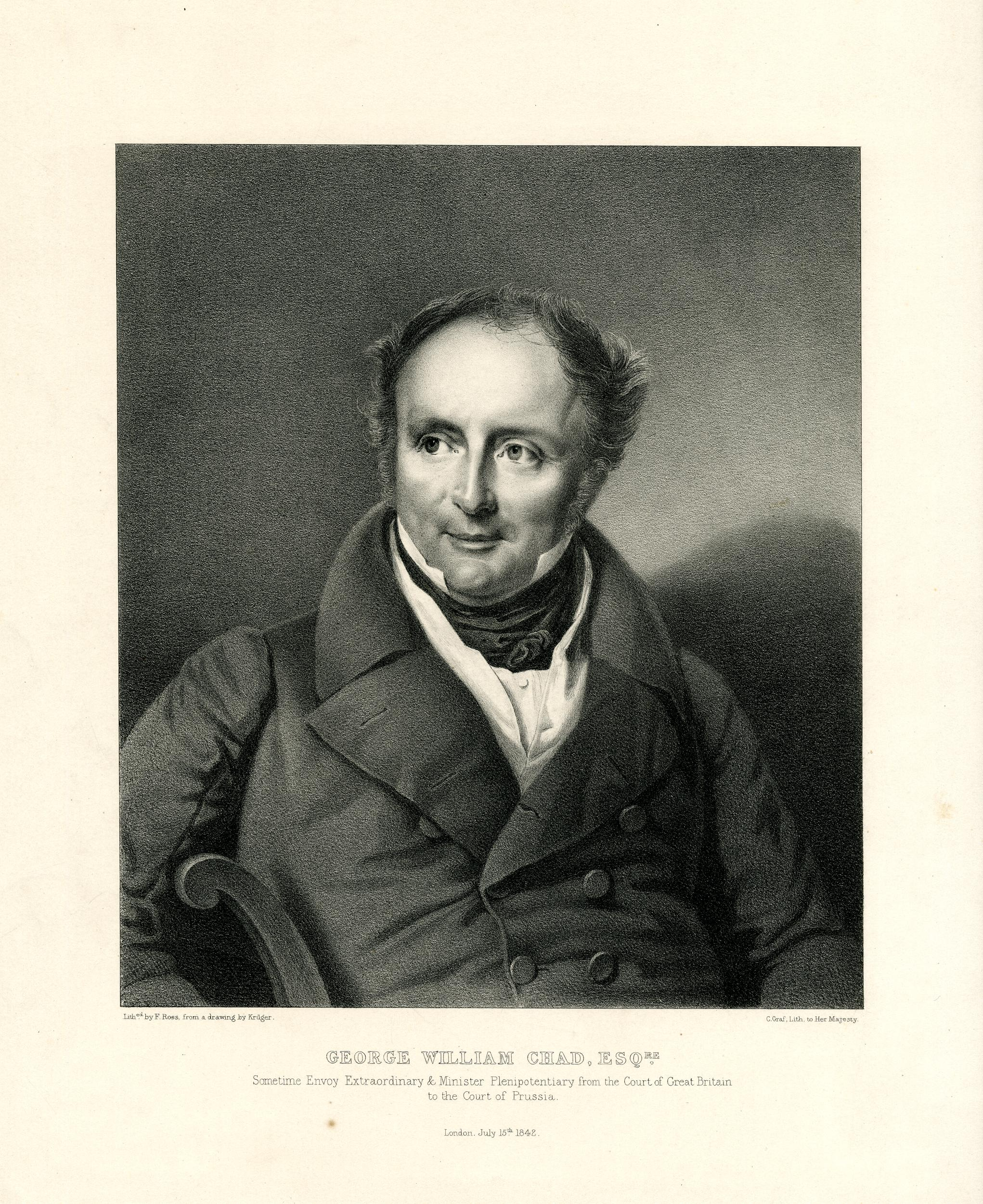 Portrait of George William Chad, half-length, seated on a chair, facing left, wearing a jacket, waistcoat and cravat; after a drawing by Krüger. 1842 Lithograph